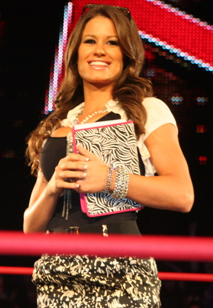 Miss Tessmacher at a TNA Impact! taping in July 2010.